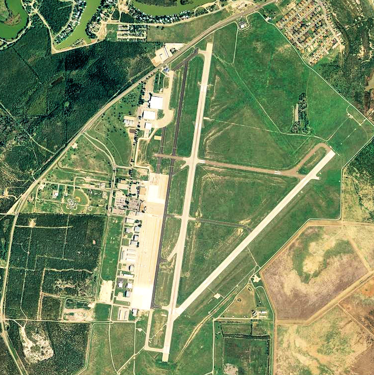 USGS digital orthophoto of San Angelo Regional Airport in Texas